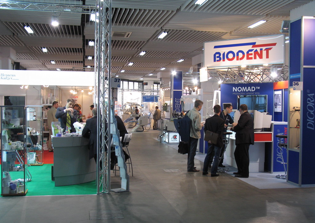 Saldent 2006 - Polish Dental Fair in Poznań, Poland